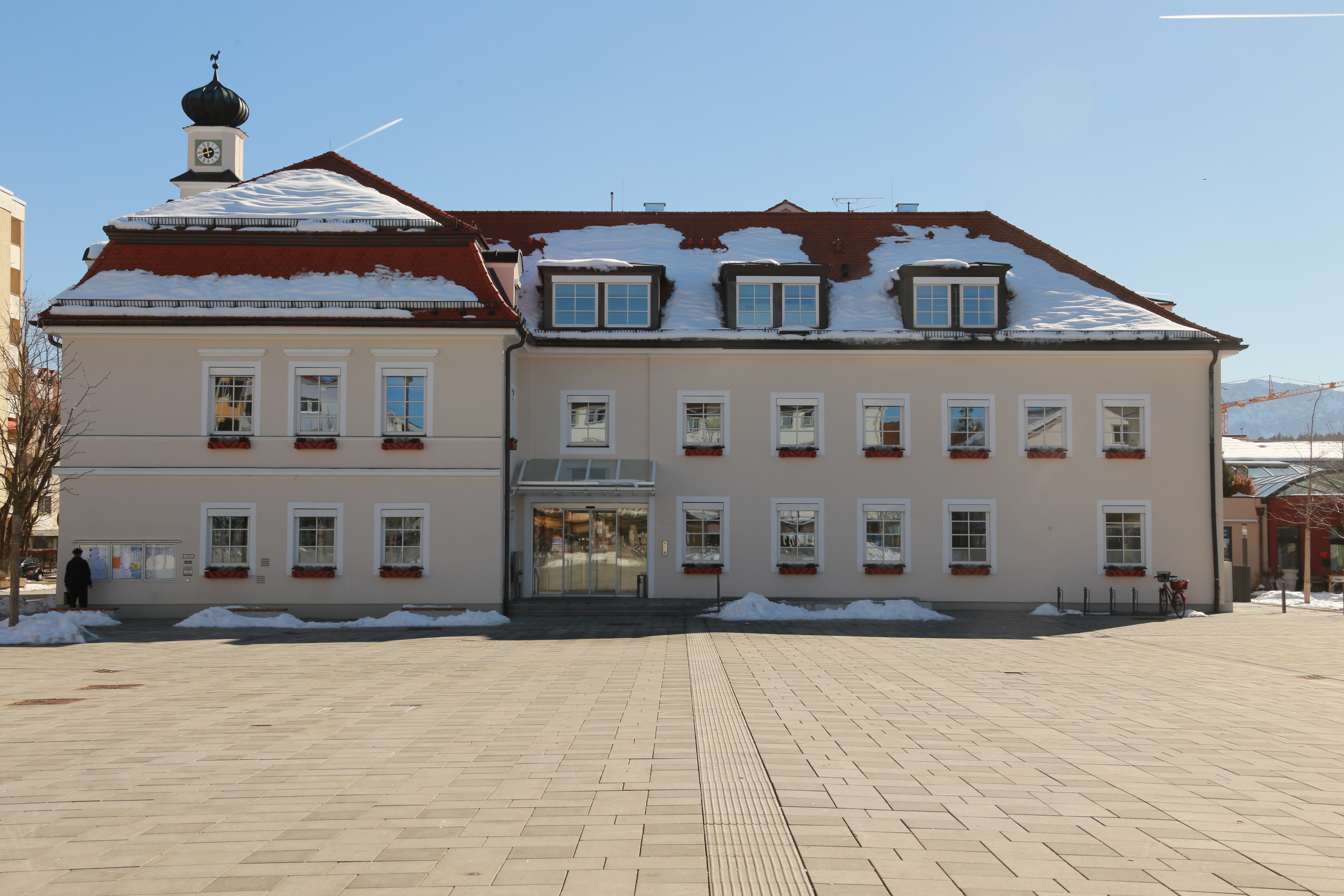 Town hall of Penzberg, Upper Bavaria, Germany